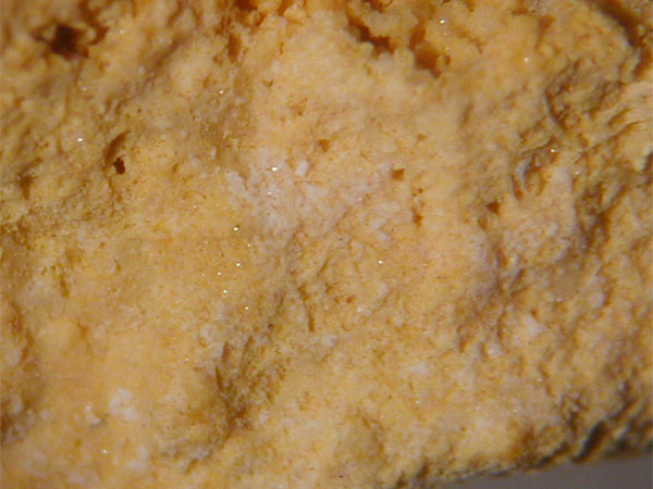 Ferruccite (white) on Avogadrite (yellow-brownish), picture size: 5 mm Locality: Vesuvius, Italy